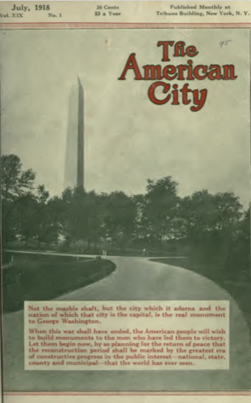 The American City magazine cover - volume 19, no. 1 with an image of the washington monument on it.